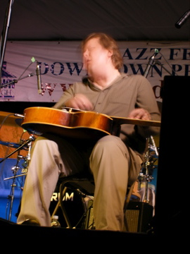 Jeff Healey playing with his Jazz Wizards Band in Peterborough, Ontario on September 8, 2007. This picture shows his unique method of playing guitar.